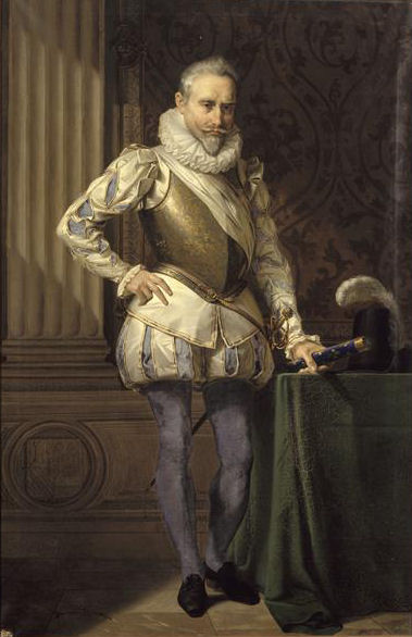 Portrait of Henri de La Tour d'Auvergne, duc de Bouillon